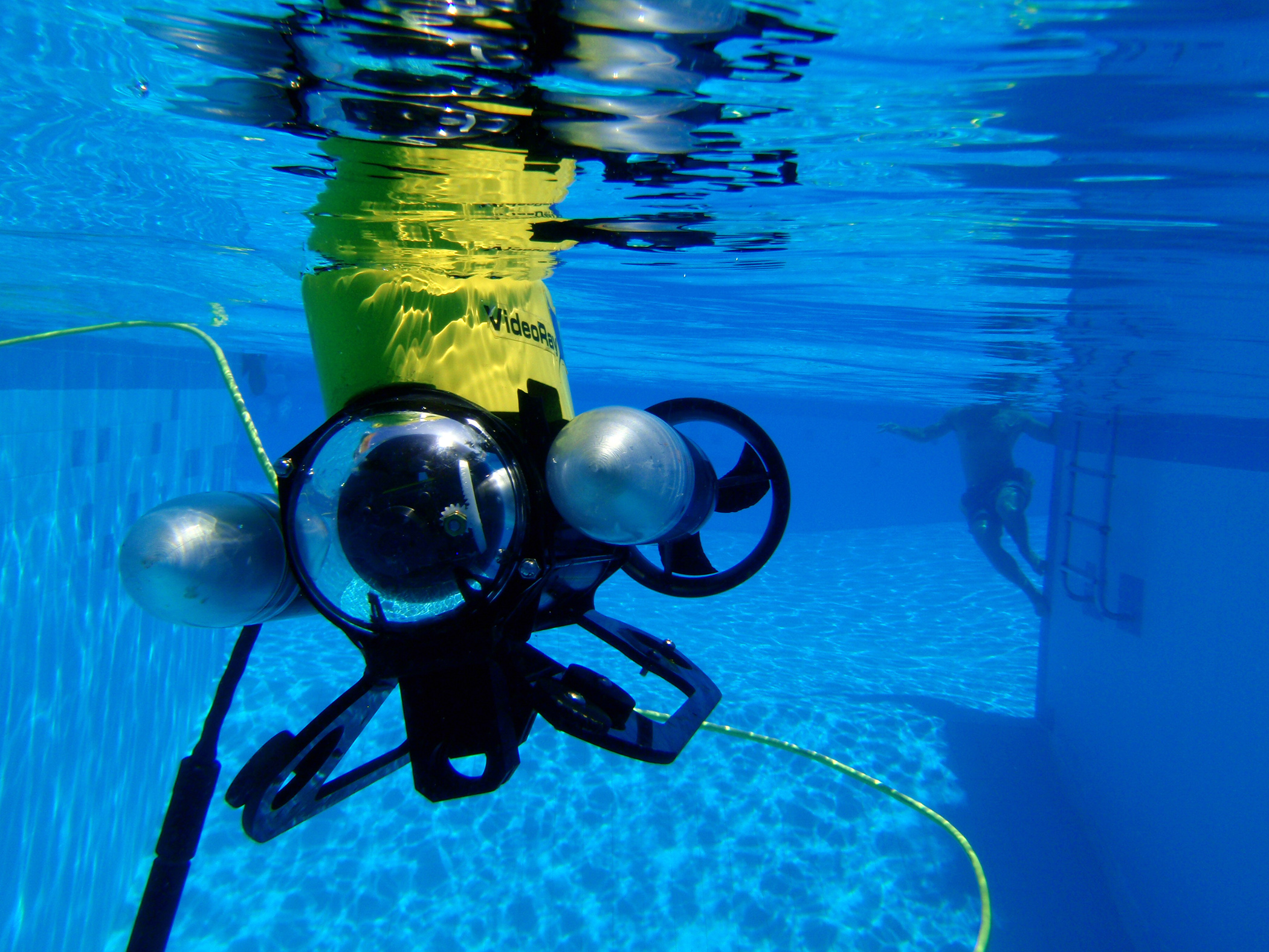 PORT VICTORIA, Seychelles (Aug. 9, 2009) U.S. Navy divers conduct tests of the Video Ray, an underwater remote operated vehicle, during operation Island Response '09. Island Response is a bilateral exercise between the U.S. Navy and the Seychelles Coast Guard to strengthen military relations and tactical proficiency. (U.S. Navy photo by Mass Communication Specialist 1st Class Joseph W. Pfaff/Released)